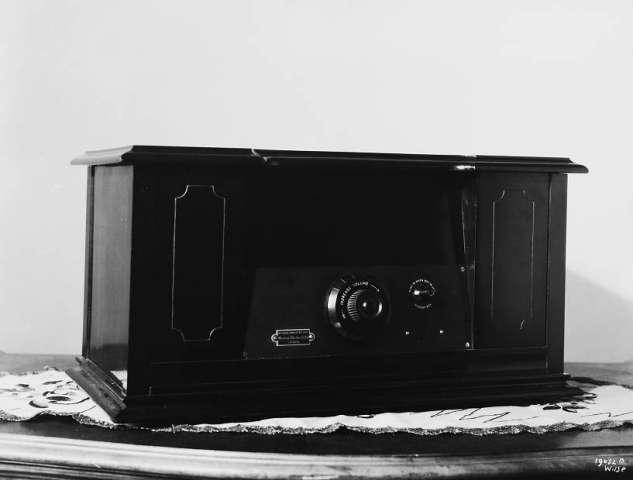 Western Electric radio